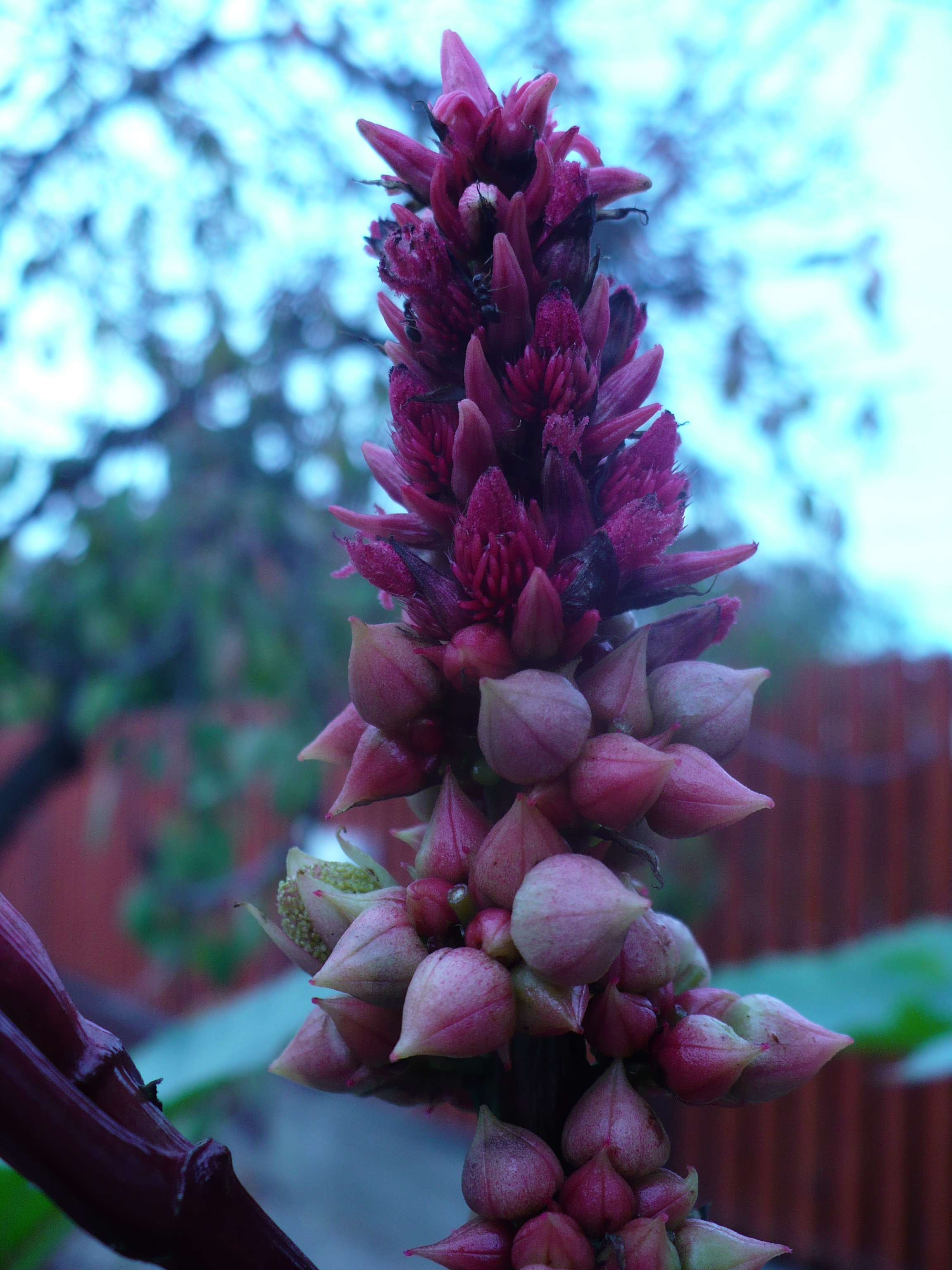 Inflorescence of ricinus